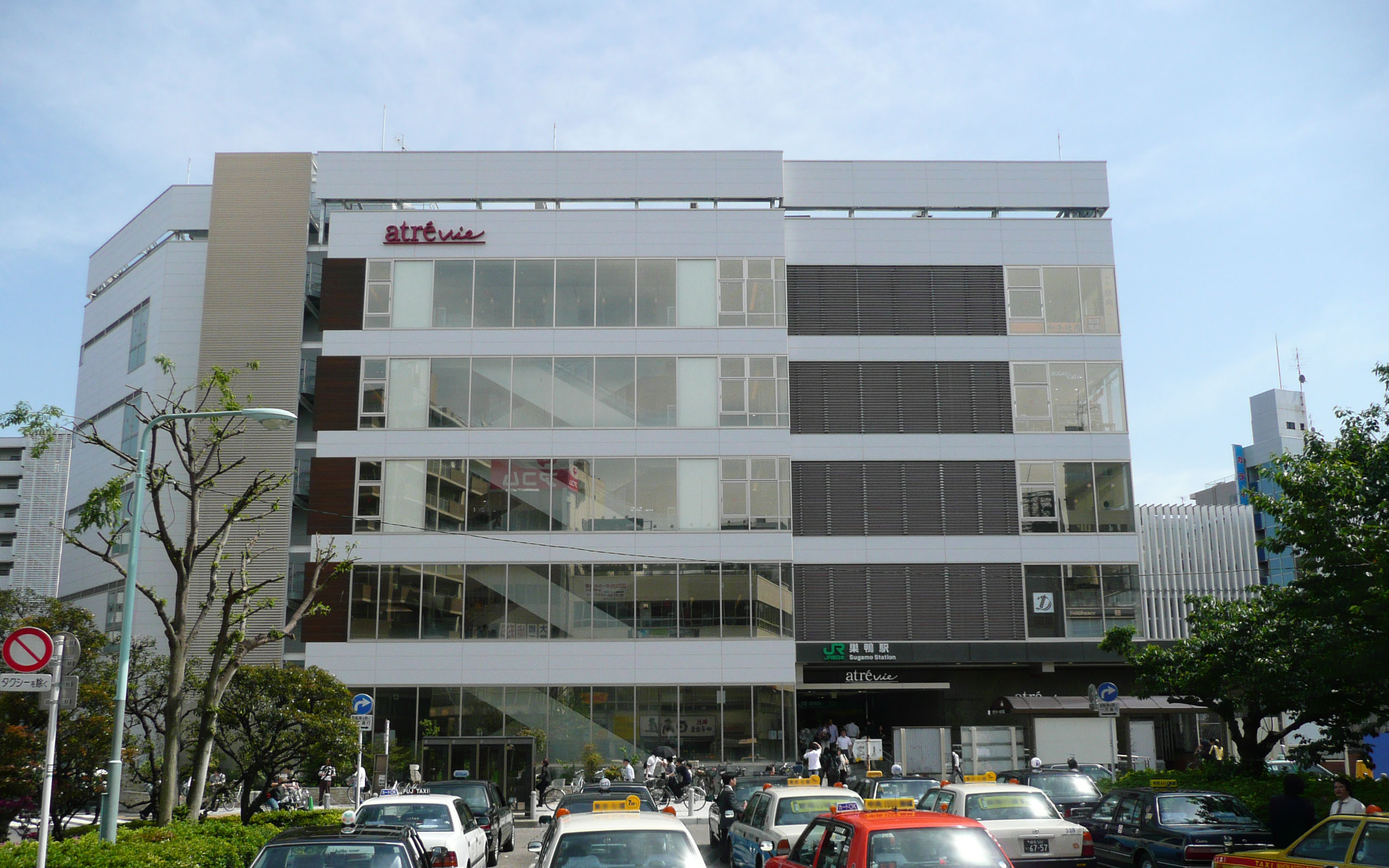 Sugamo Station